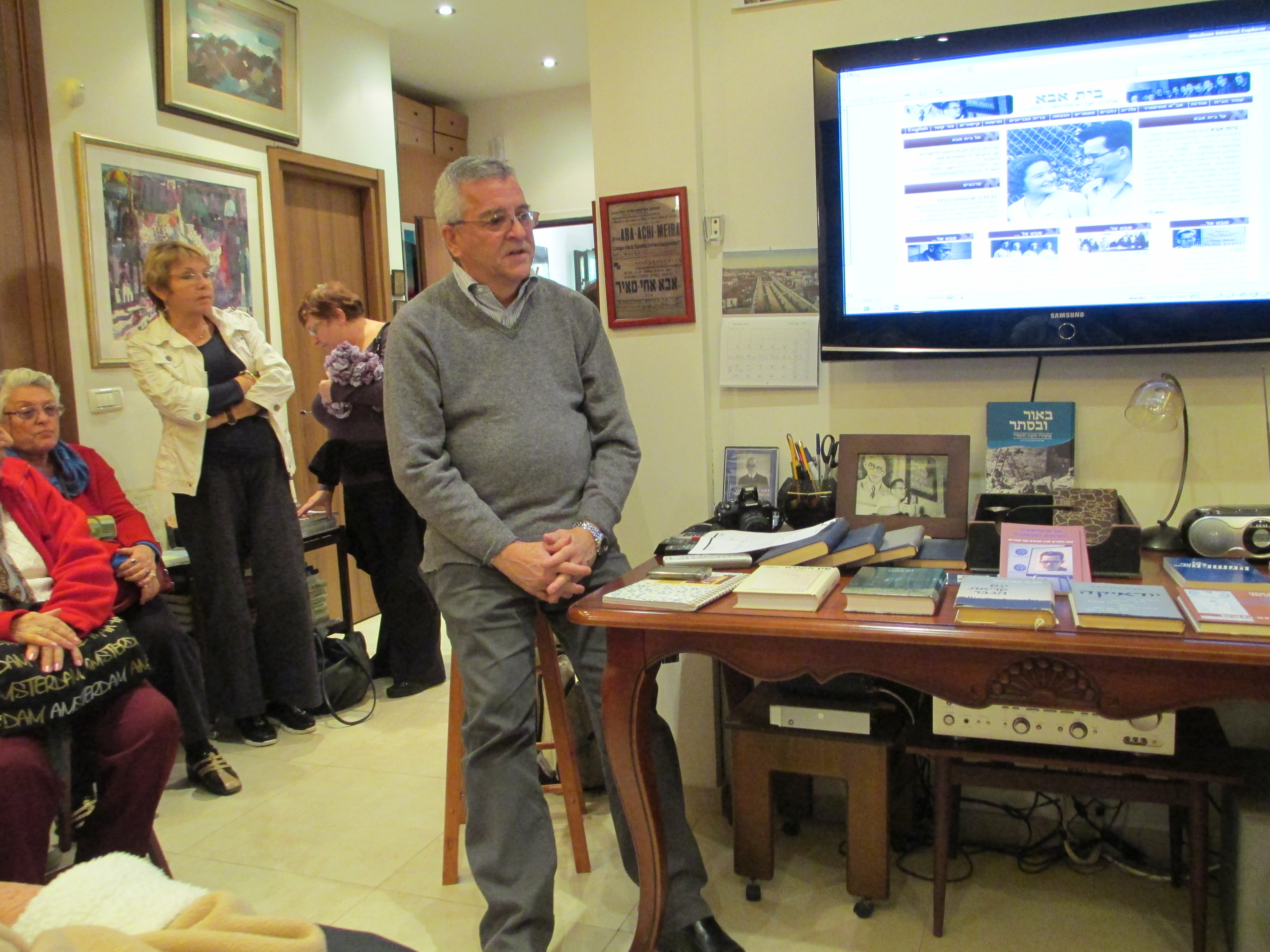 beit aba in ramat gan יוסי אחימאיר מסביר למבקרים בבית אב"א אחימאיר ברמת גן, על אביו. ברקע-אב"א וסוניה אחימאיר בצעירותם